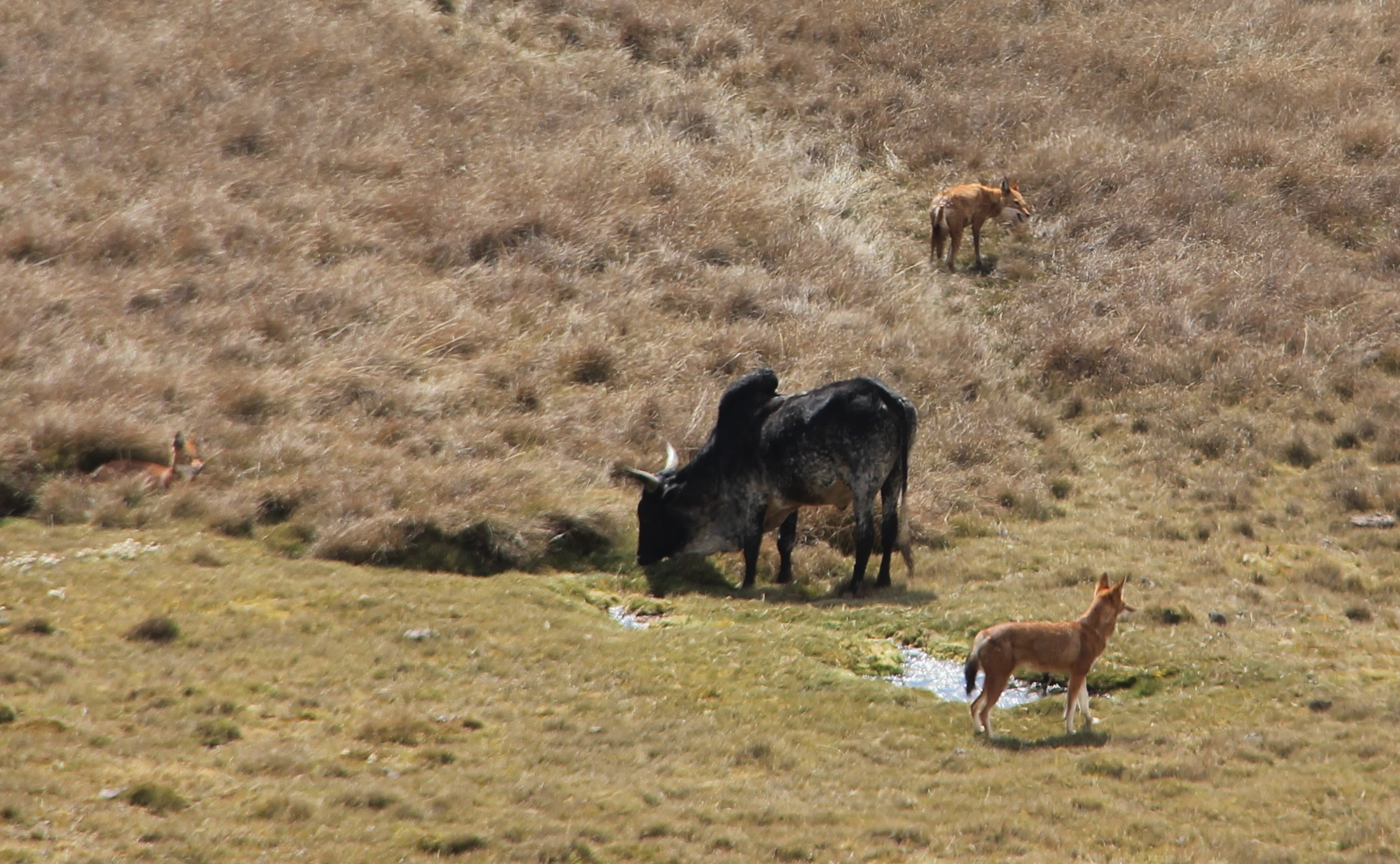 Ethiopian wolves and zebu, Bale Mountains National Park.